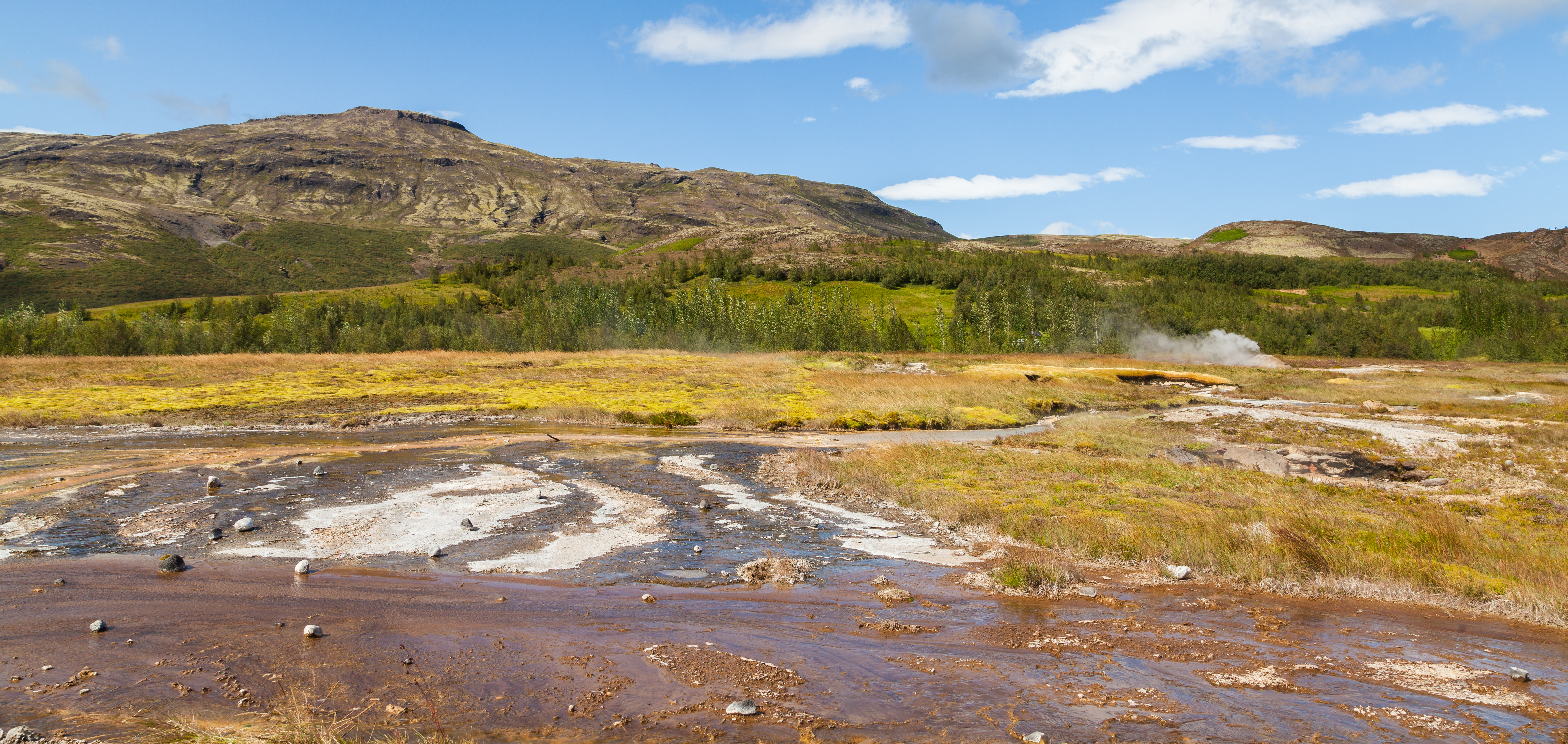 Geysir Geothermal Field, Suðurland, Iceland